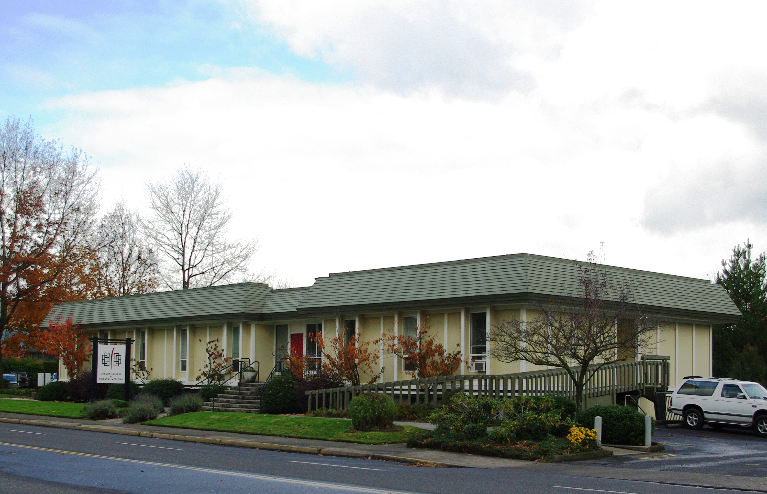 Oregon College of Oriental Medicine in Portland, Oregon. Old campus in east Portland in 2009.